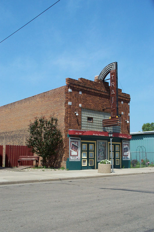 Trail Theatre, Hillsboro, North Dakota. From .